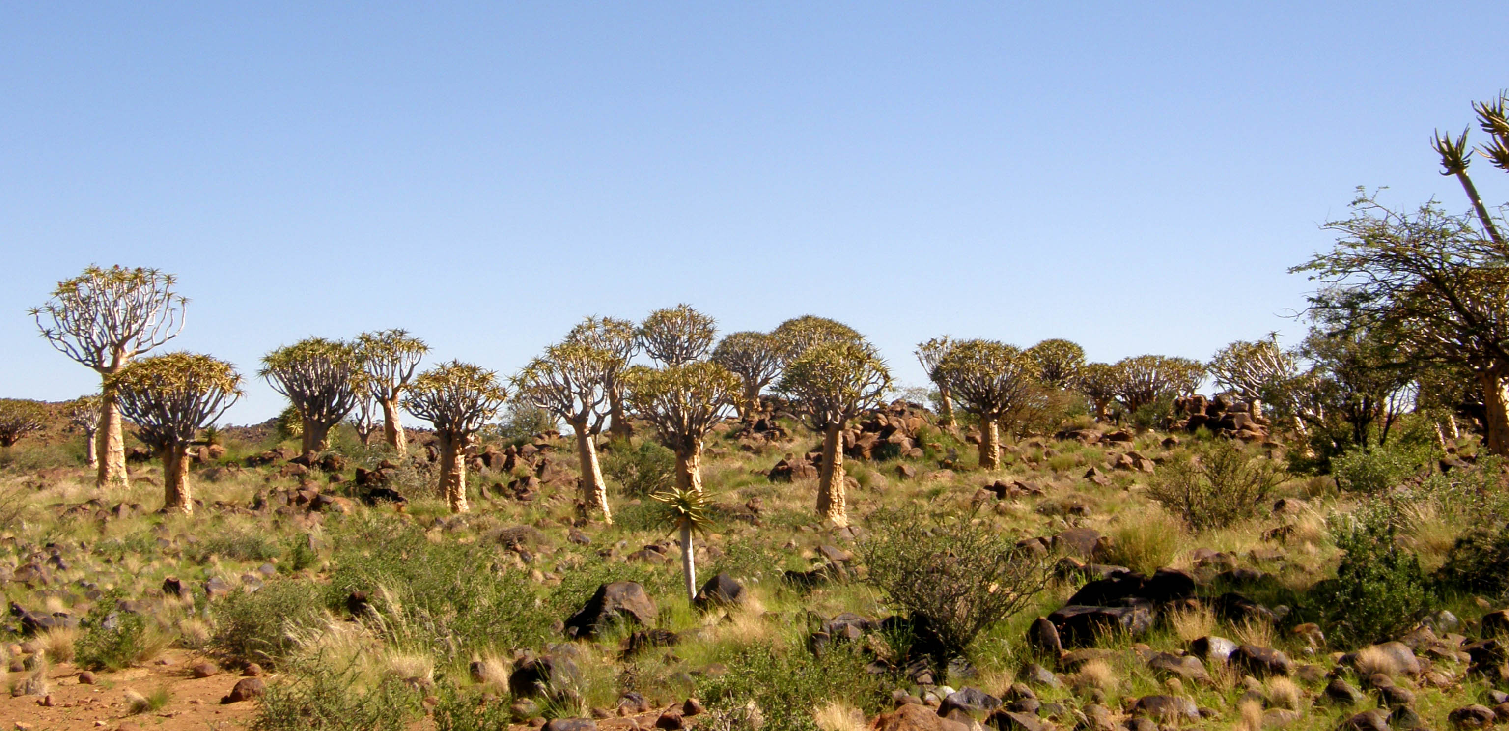 Quiver Tree Forest, Keetmanshop, Namibia